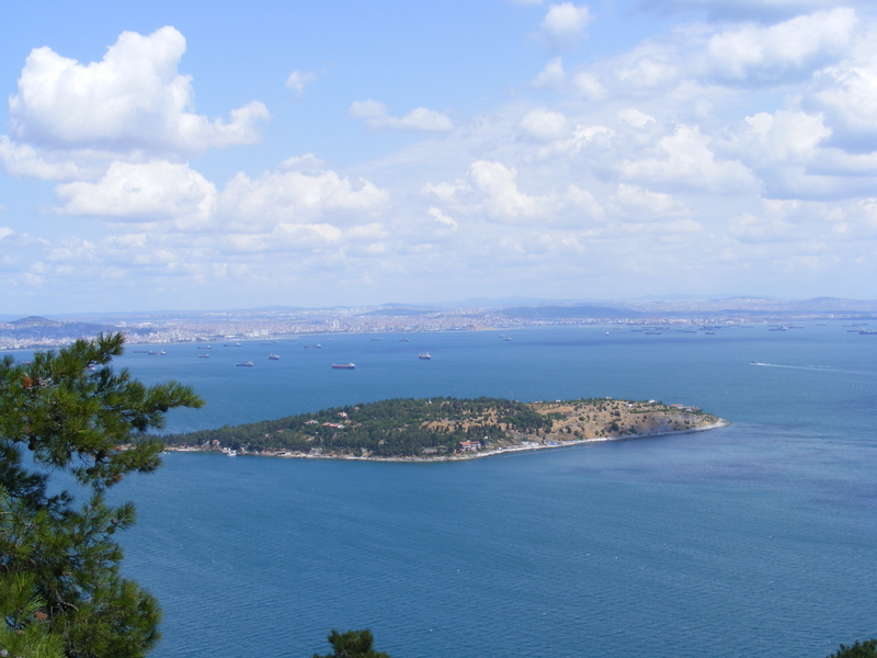 A great view from the top of Buyukada